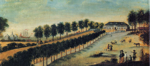 Painting in Hørsholm Egns Museum of the original Kokkedal mansion in North Zealand, Denmark.